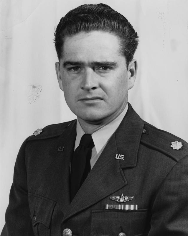 Major William T. Whisner, who as a Captain was an ace pilot with the 487th Fighter Squadron, 352nd Fighter Group, during the Second World War. He stayed in the United States Army Air Force after the war ended and was subsequently promoted to rank of Major.